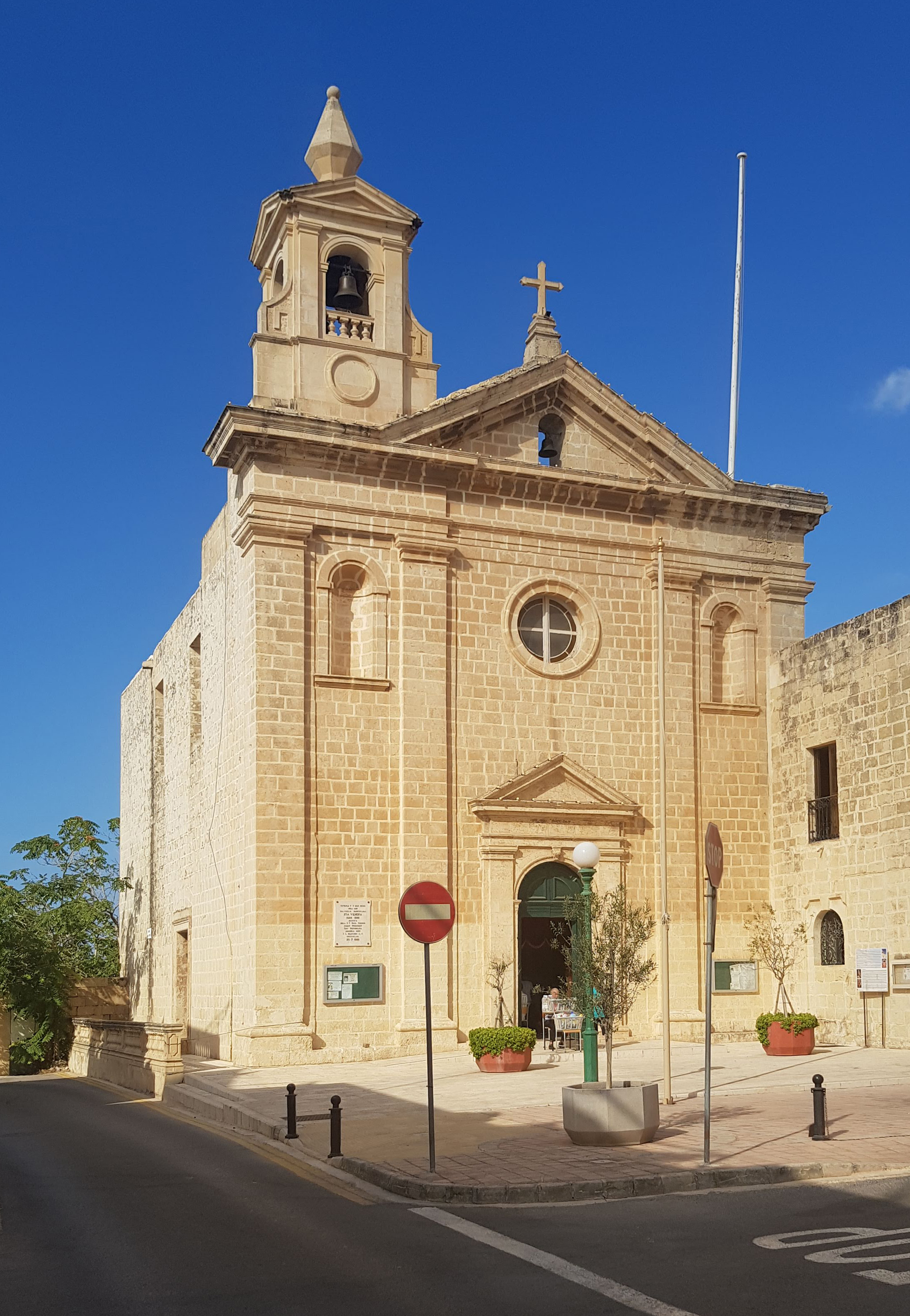 Old Parish Church of St. Venera in St. Venera Square, Santa Venera, Malta This media is about Maltese cultural property with inventory number 00199.